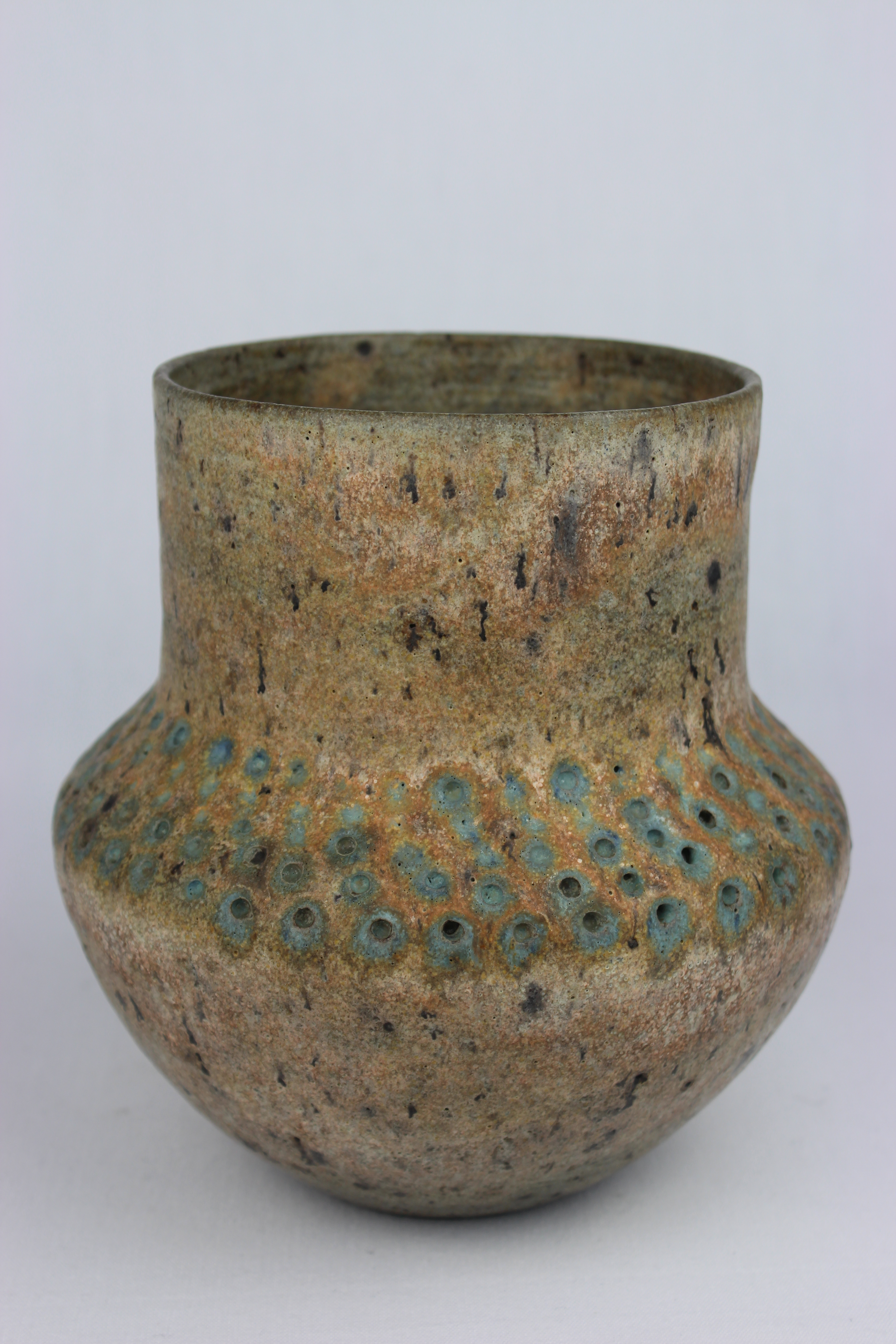 Jar with bulbous lower body and straight rim. The bulbous part dimpled and coloured blue. From the W.A. Ismay Studio Ceramics Collection at York Art Gallery